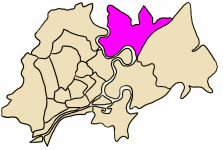 position of Thu Duc district in an outline of the core area of HCMC (Ho Chi Minh City, Vietnam) - ISO code VN-F-HC. Keywords: map, outline, city, Ho Chi Minh City, HCMC, HCM, Thu Duc district, quan Thu Duc.